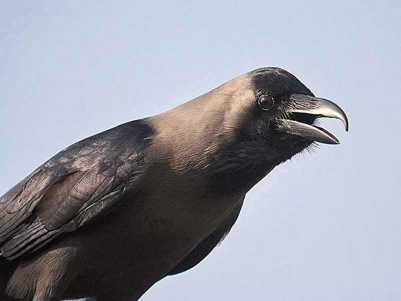 House Crow Corvus splendens in Kolkata, West Bengal, India.